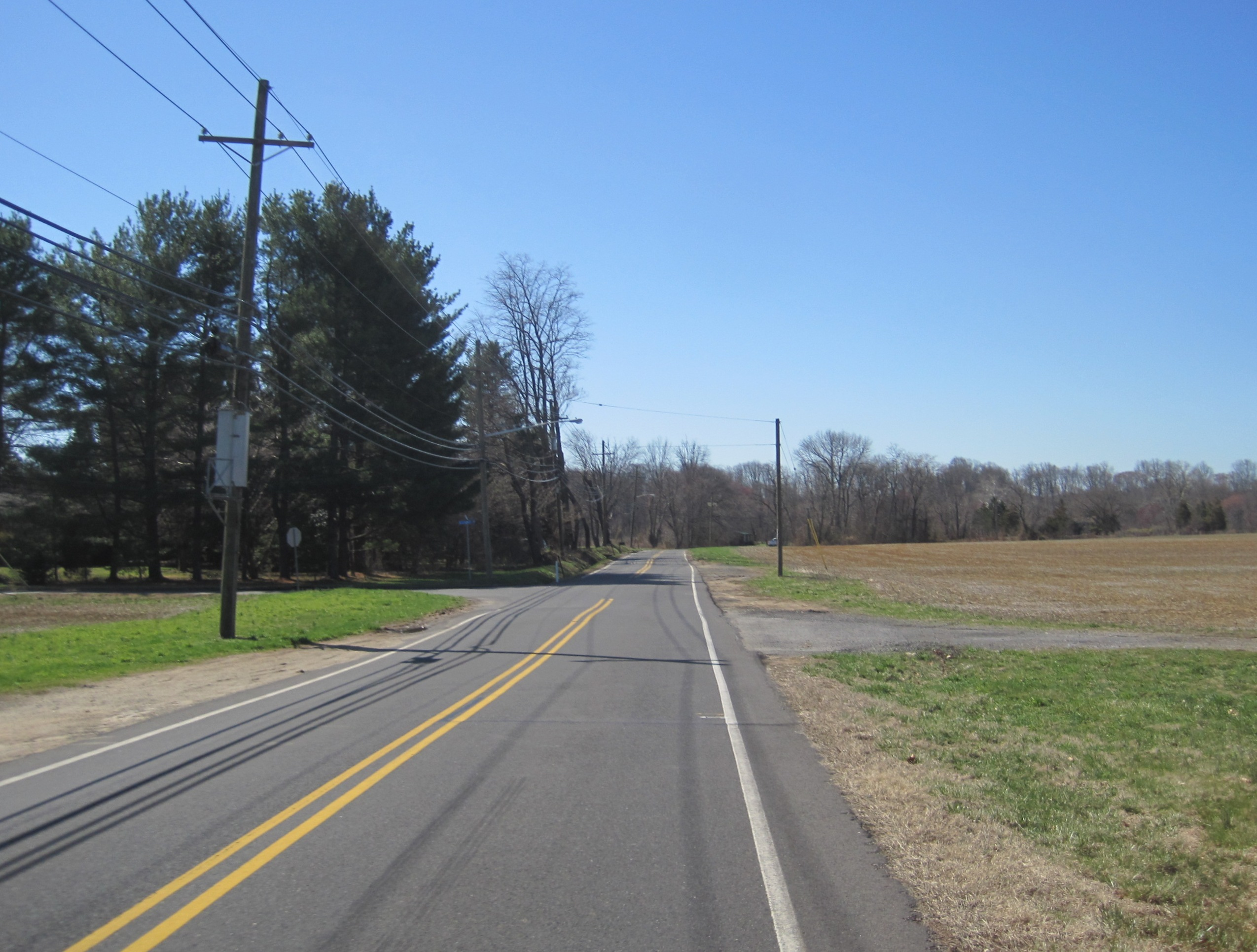 Photo of the unincorporated community of Extonville, New Jersey within Hamilton Township, Mercer County. Photo taken on southbound Extonville Road approaching Ellisdale Road.